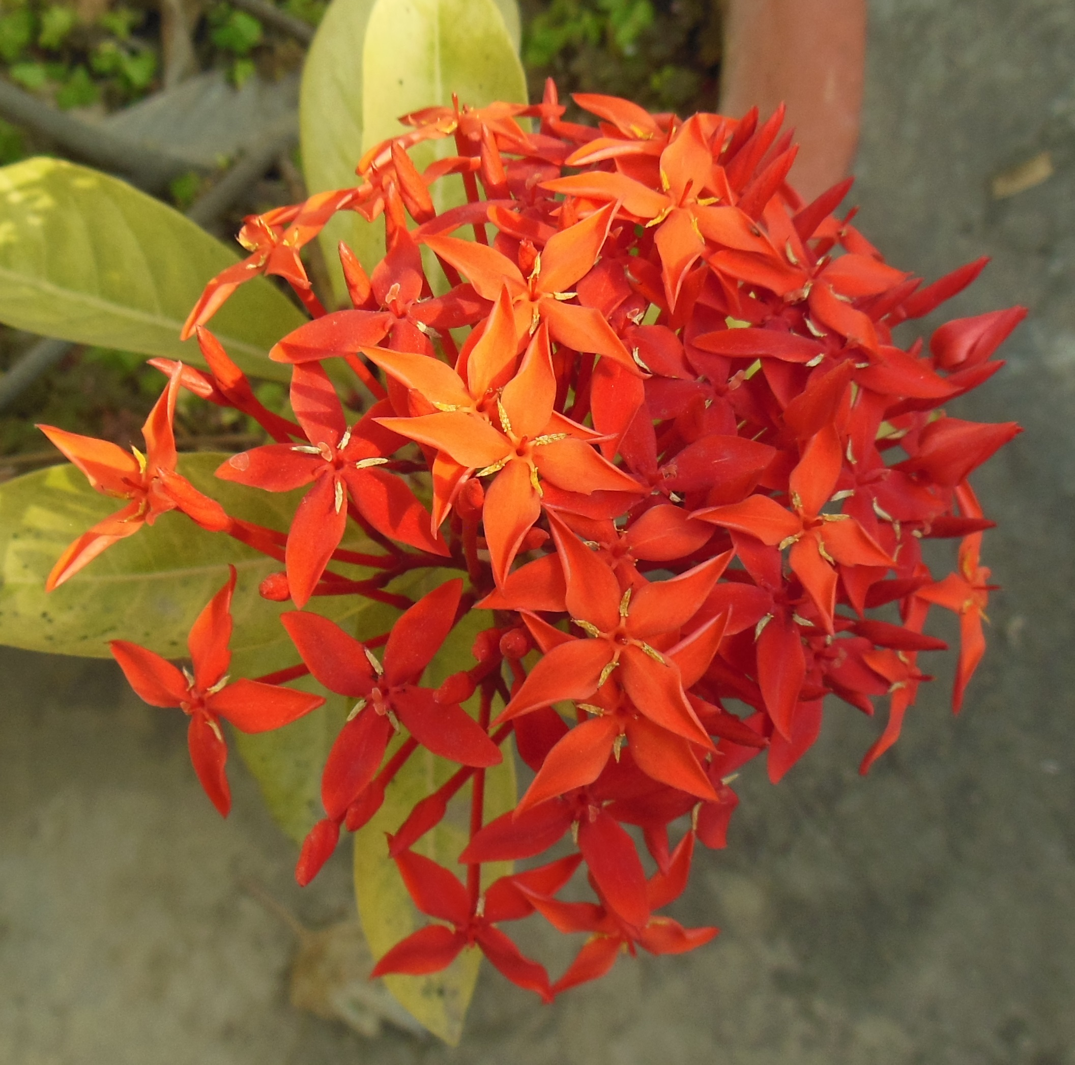 I. coccinea is a dense, multi-branched evergreen shrub, commonly 4–6 ft (1.2–2 m) in height, but capable of reaching up to 12 ft (3.6 m) high. It has a rounded form, with a spread that may exceed its height. The glossy, leathery, oblong leaves are about 4 in (10 cm) long, with entire margins, and are carried in opposite pairs or whorled on the stems. Small tubular, scarlet flowers in dense rounded clusters 2-5 in (5–13 cm) across are produced almost all year long.